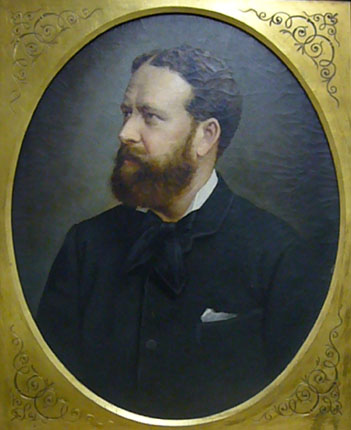 Theodor Eimer (Professorengalerie Universität Tübingen)